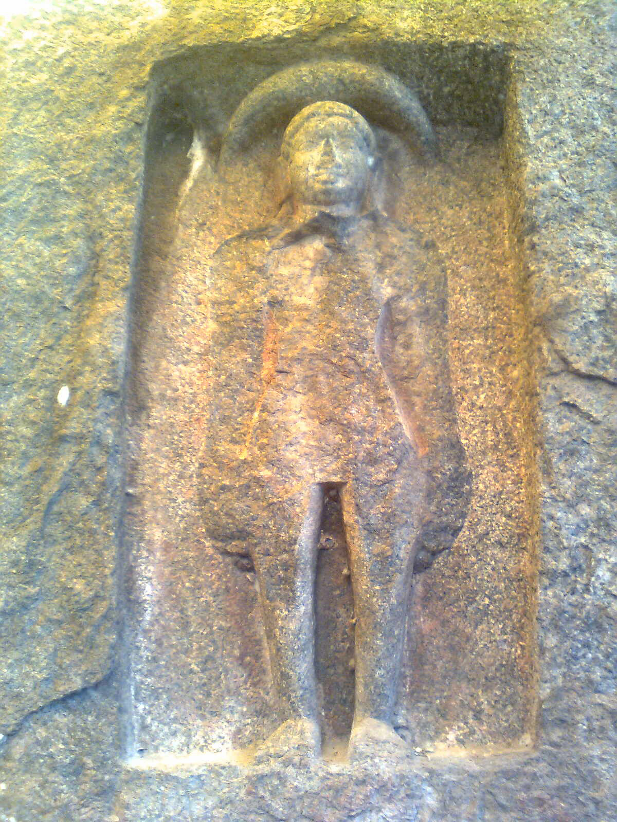 Jain Tirthankara Relief at Padmakshi Gutta, Hanumakonda, Warangal district